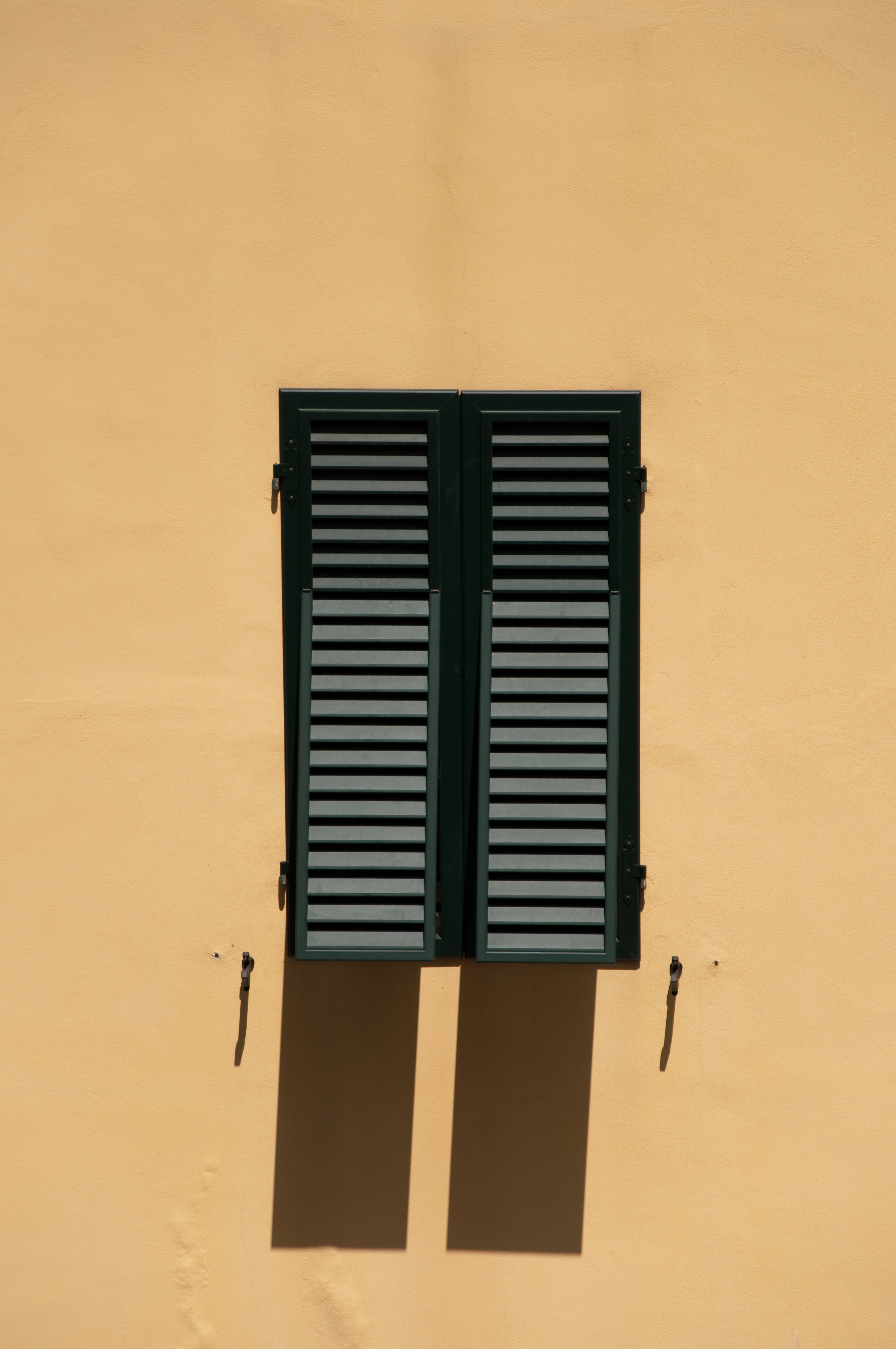 Hinged window shutters (similar to Bahama shutters) in Lucca, Italy.